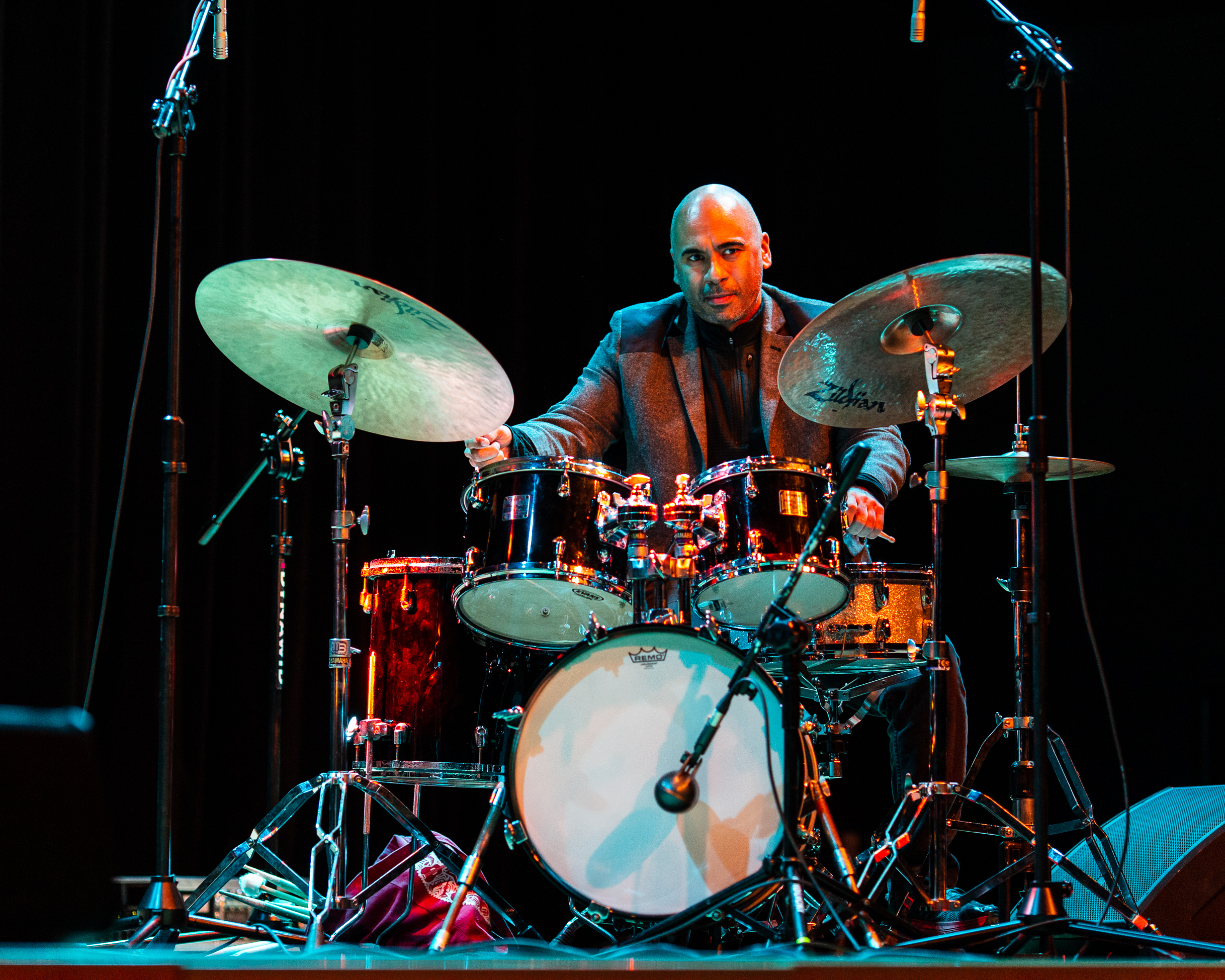 Ali Jackson on concert with Yes! Trio in Wrocław, Poland, 2019